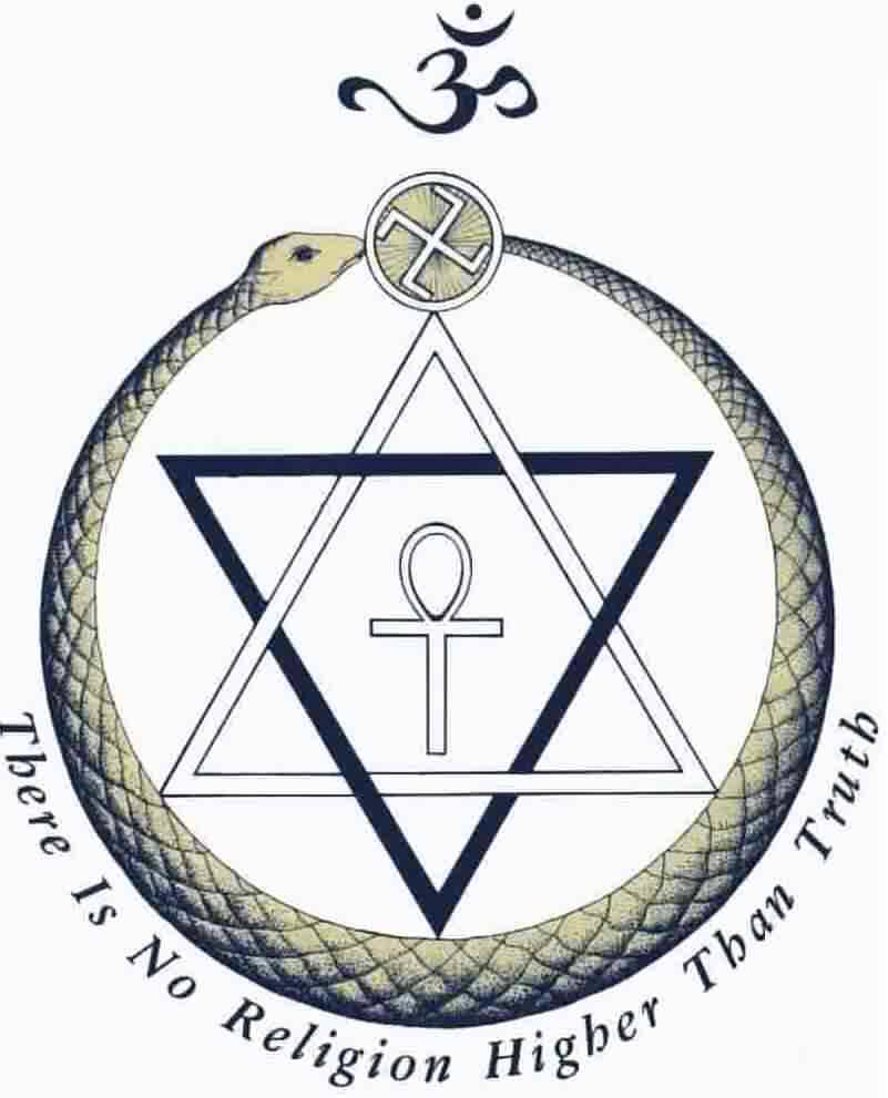 The official logo of the United Lodge of Theosophists